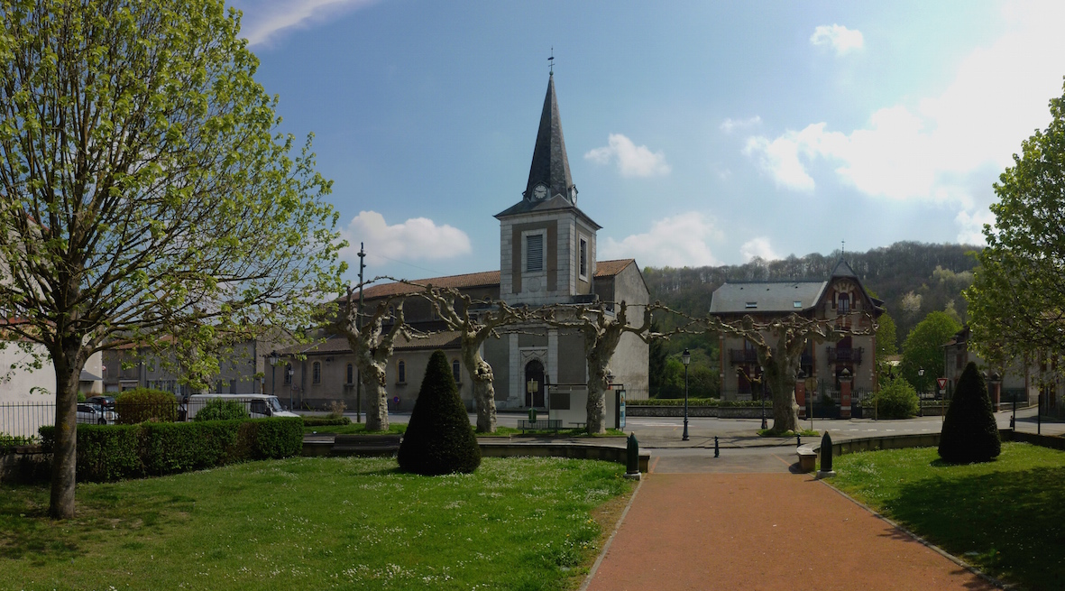 Miramont de Comminges, Haute-Garonne, France - Church and mother & child care center.